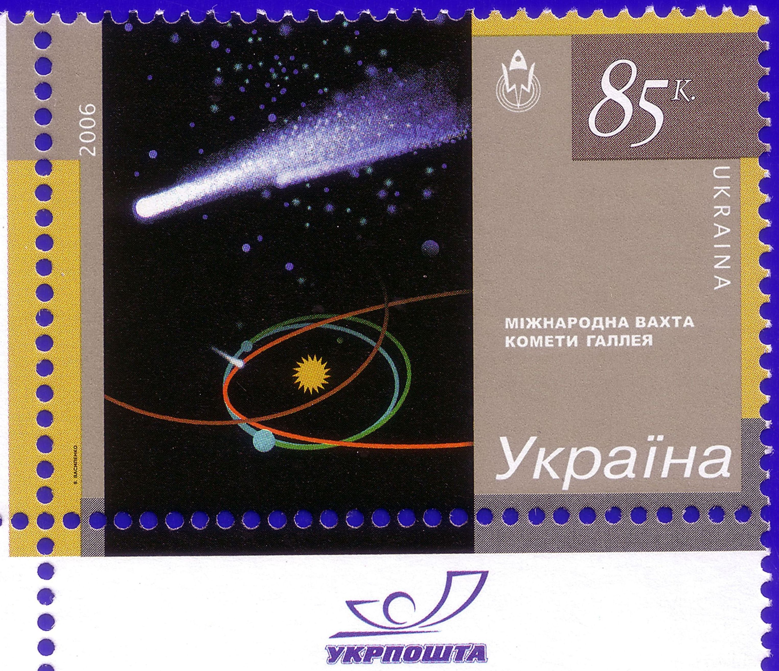 Stamp of Ukraine, 2006. Kosmos. Galley Comet.